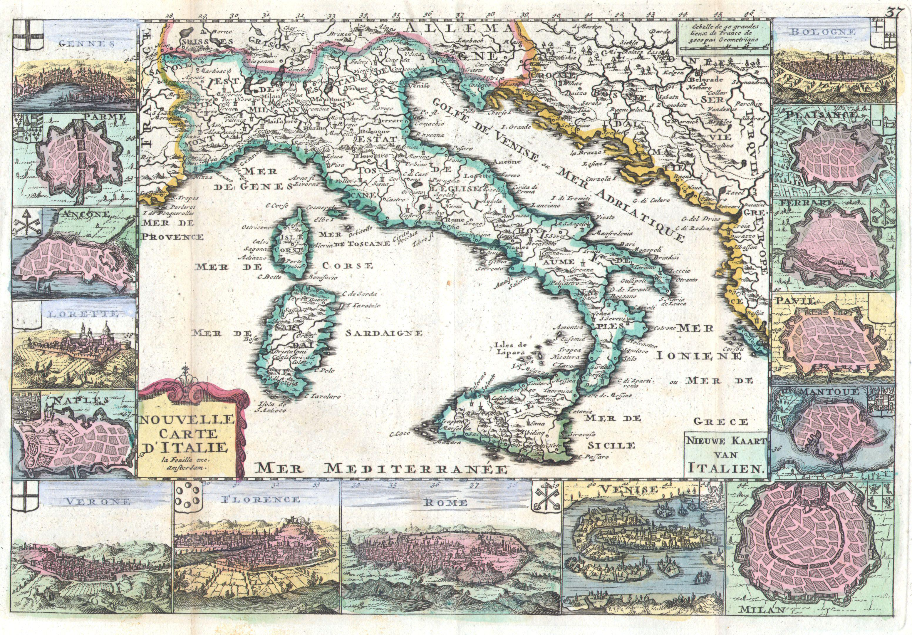 A very scarce, c. 1706, map of Italy issued by Daniel de La Feuille. Extends from Provence in the west to Serbia and the Island of Corfu in the east. Extends north as far as Switzerland and south as far as Sicily. Includes the islands of Corsica and Sardinia. Depicts the Italian peninsula and surrounding areas in considerable detail. The main map is surrounded by 15 maps of important Italiancities including: Gennes, Parme (Parma), Ancone, Lorette, Naples, Verone (Verona), Florence (Firenze), Rome, Venice, Milan, Mantoue (Mantua), Pavie, Ferrare, Platsance and Bolobne. Titles in lower right (in Dutch) and lower left (French) quadrants. This map was originally prepared for inclusion as chart no. 40 in the 1706 edition of De la Feuille's Les Tablettes Guerrières, ou Cartes choisies Pour la Commodité des Officiers et des Voyageurs, Contenant toutes les Cartes générales Du Monde, avec les particulieres des Lieux ou le Théatre de la Guerre se fait sentir en Europe..